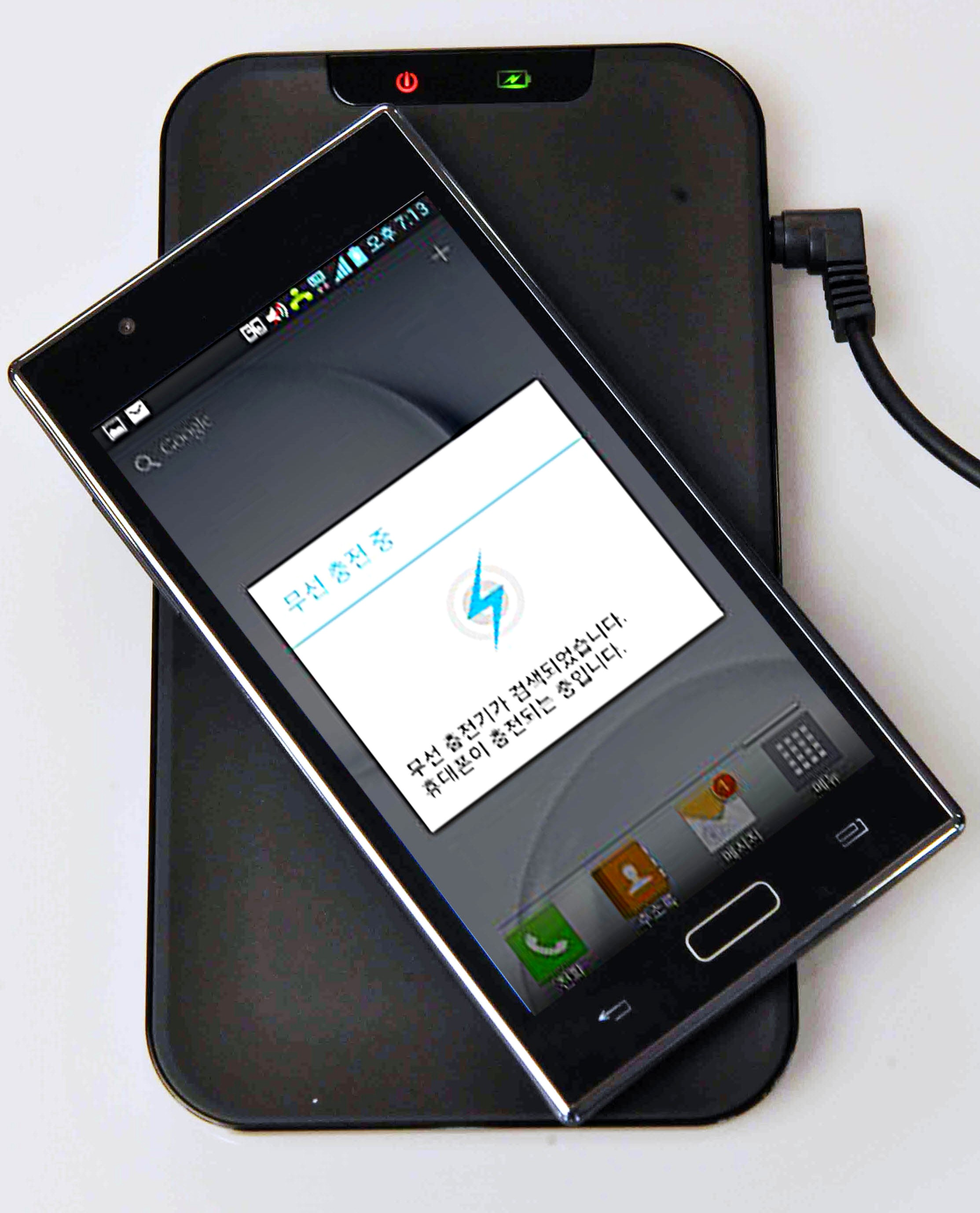 Wireless charging pat for LG smartphone, using the Qi (pronounced 'Chi') international inductive power standard published by the Wireless Power Consortium (WPC). The phone is placed on the pad and it automatically charges.